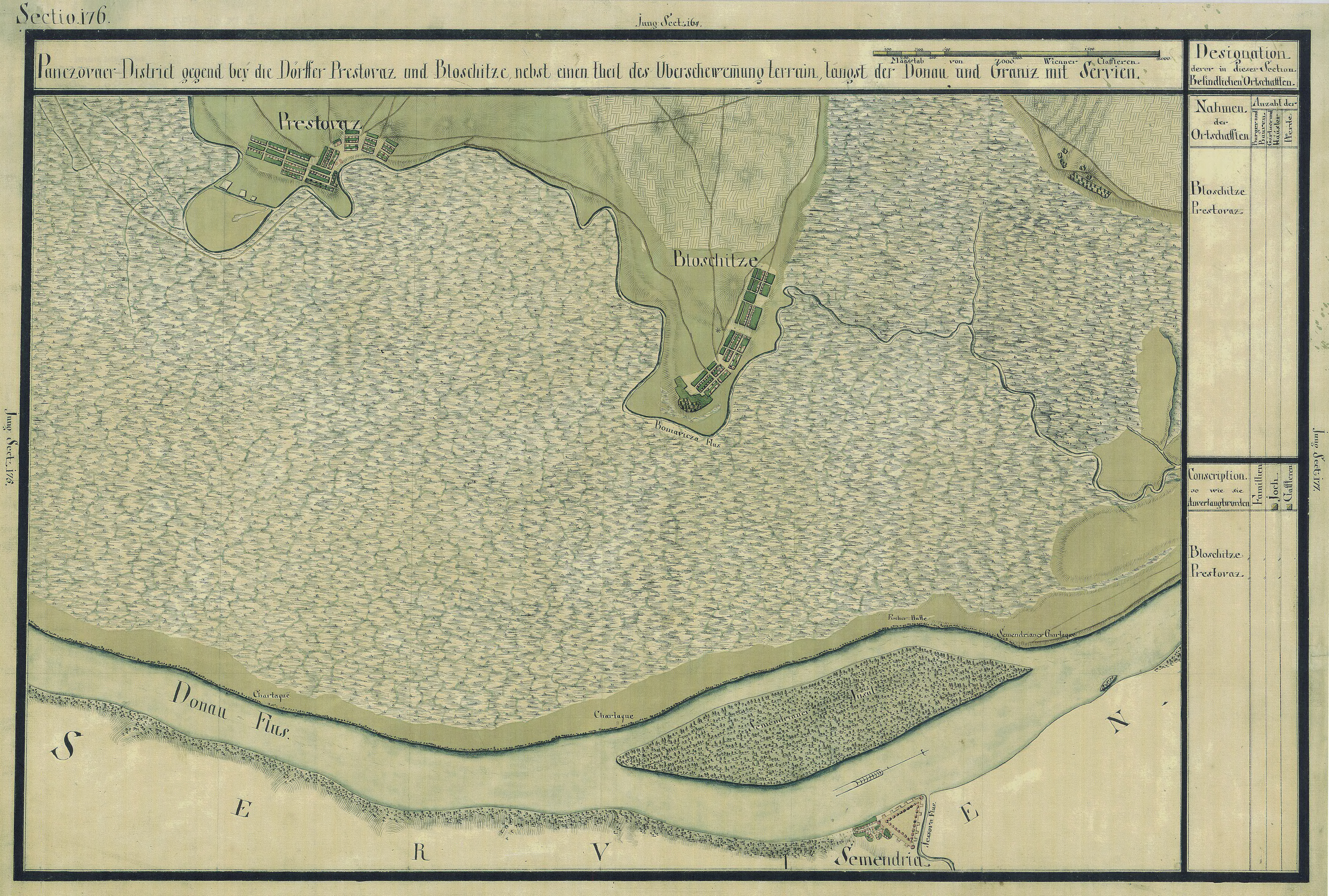 The Banat region in the cadastral maps: Josephinische Landesaufnahme, 1769-72. Josephinische Landaufnahme pg176